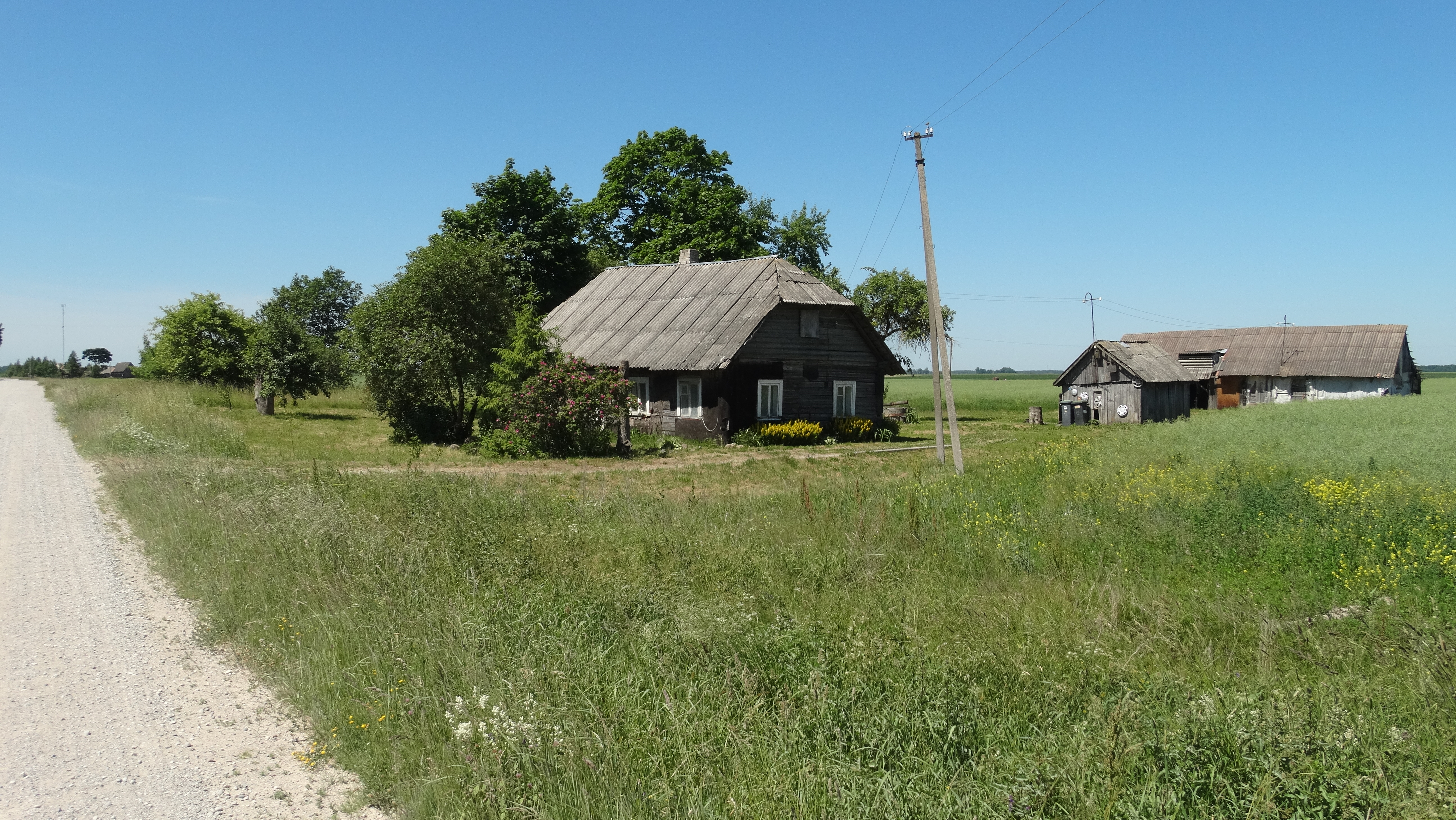 Lepšiškė, Raseiniai District, Lithuania